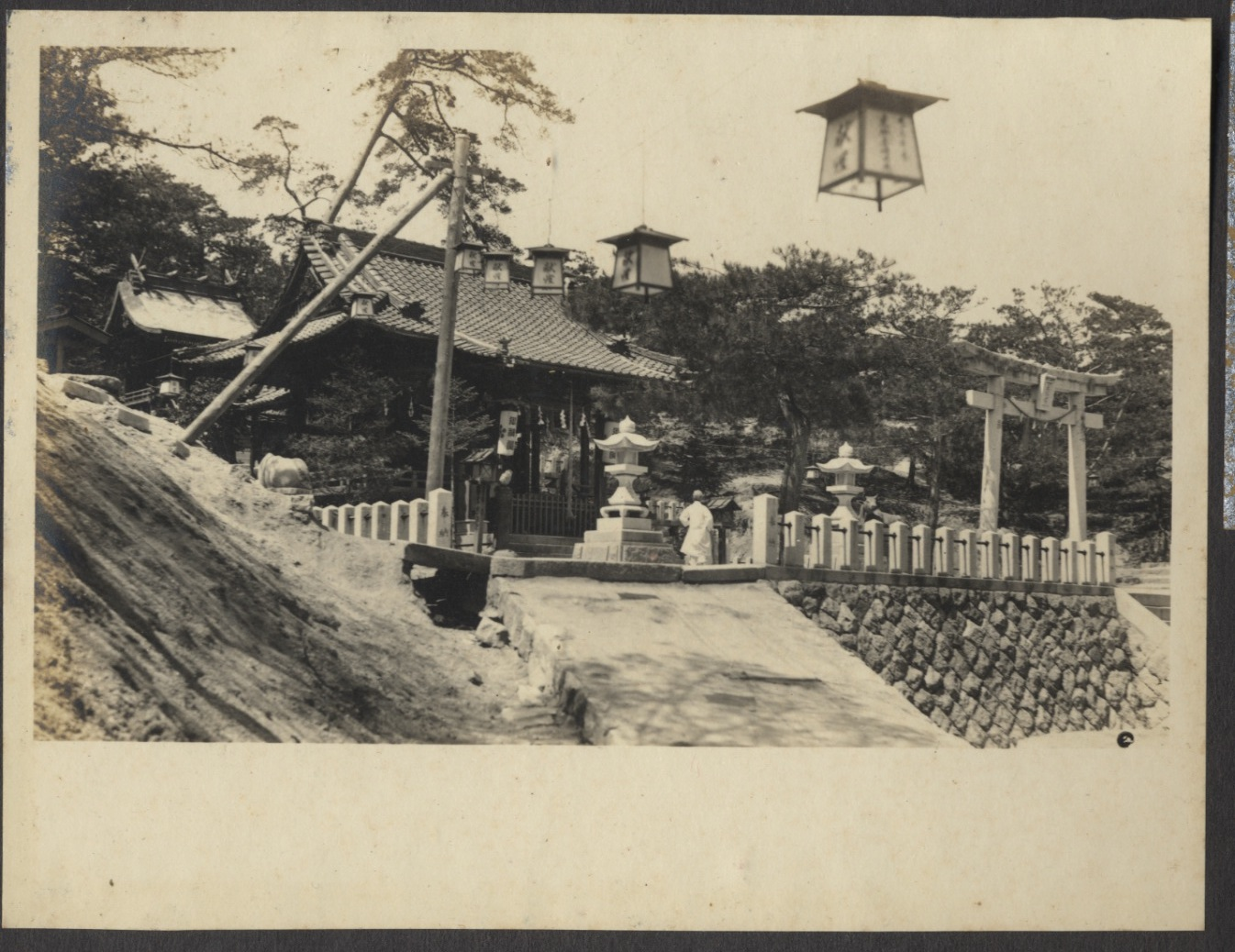 Keijyo Shrine Picture Book